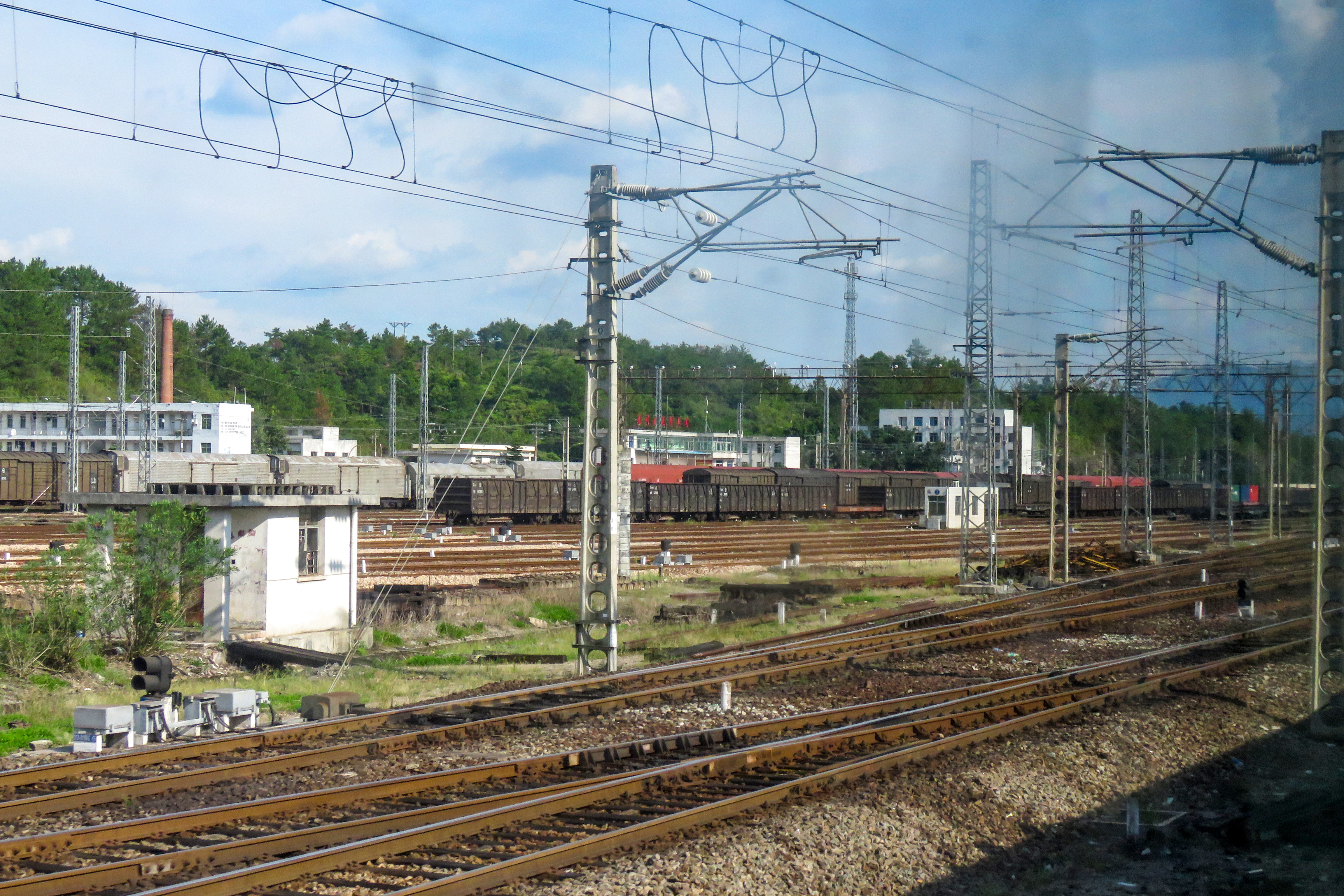 A considerable yard...